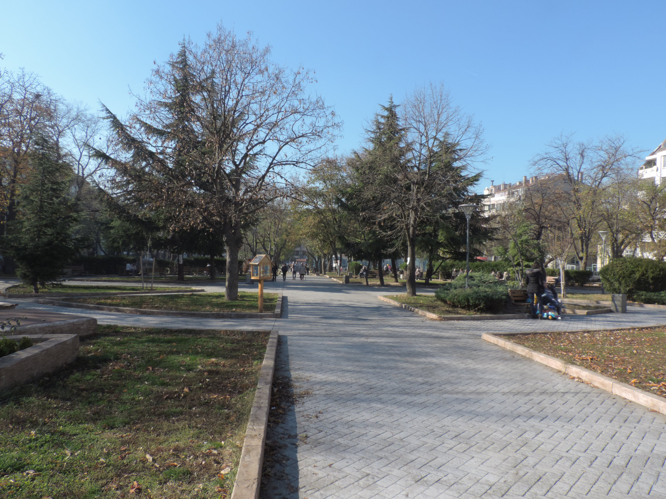 Borisova Garden in Burgas, Bulgaria